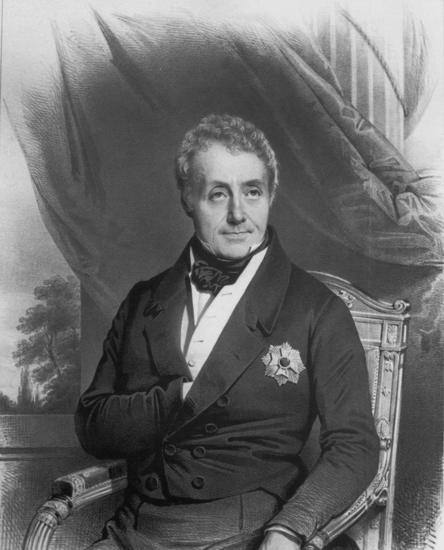 Anton Reinhard Falck (1777-1843); Dutch politician